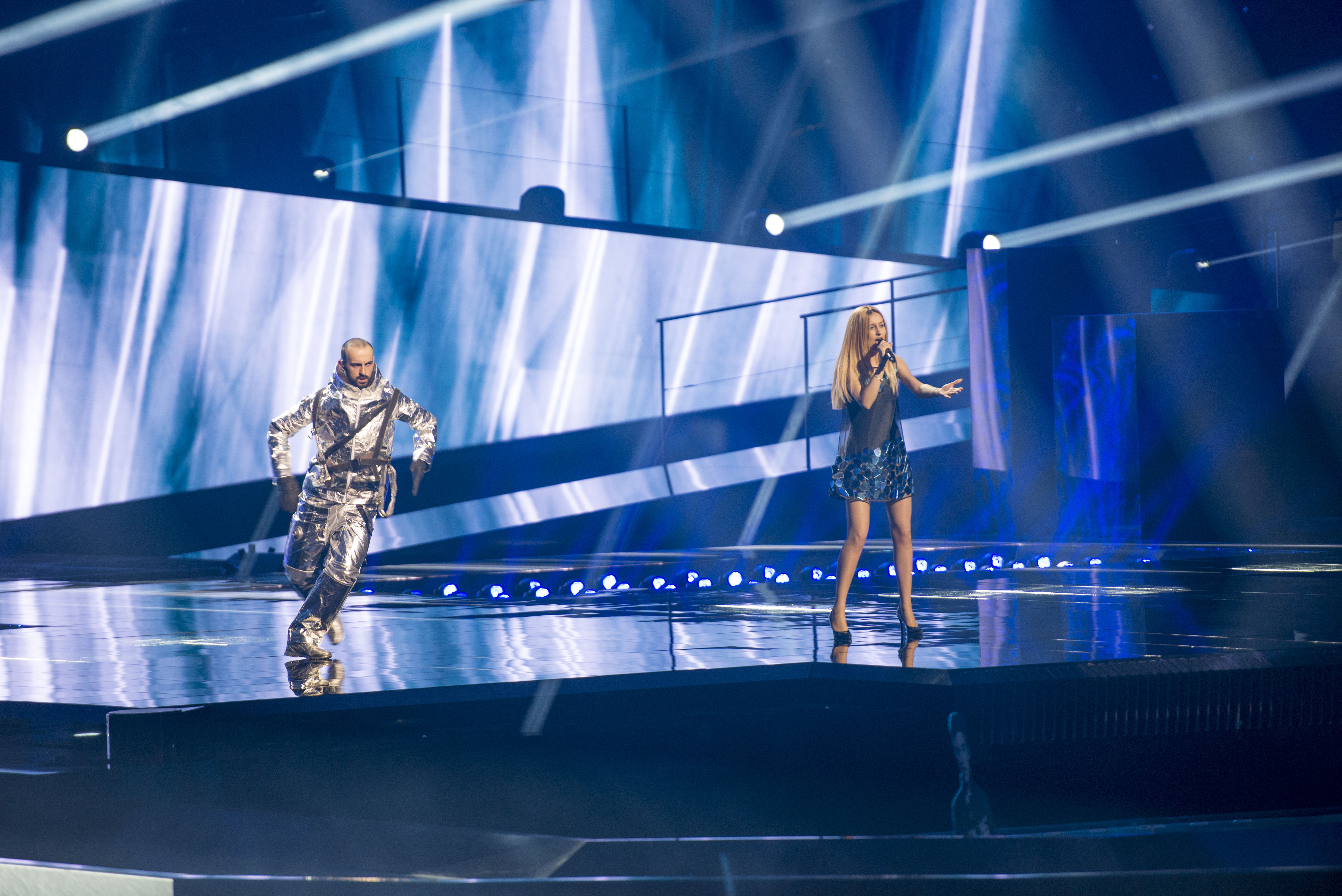 Lidia Isac representing Moldova with the song "Falling Stars" during a rehearsal before the first semi final of the Eurovision Song Contest 2016 in Stockholm. (Help translate this text)